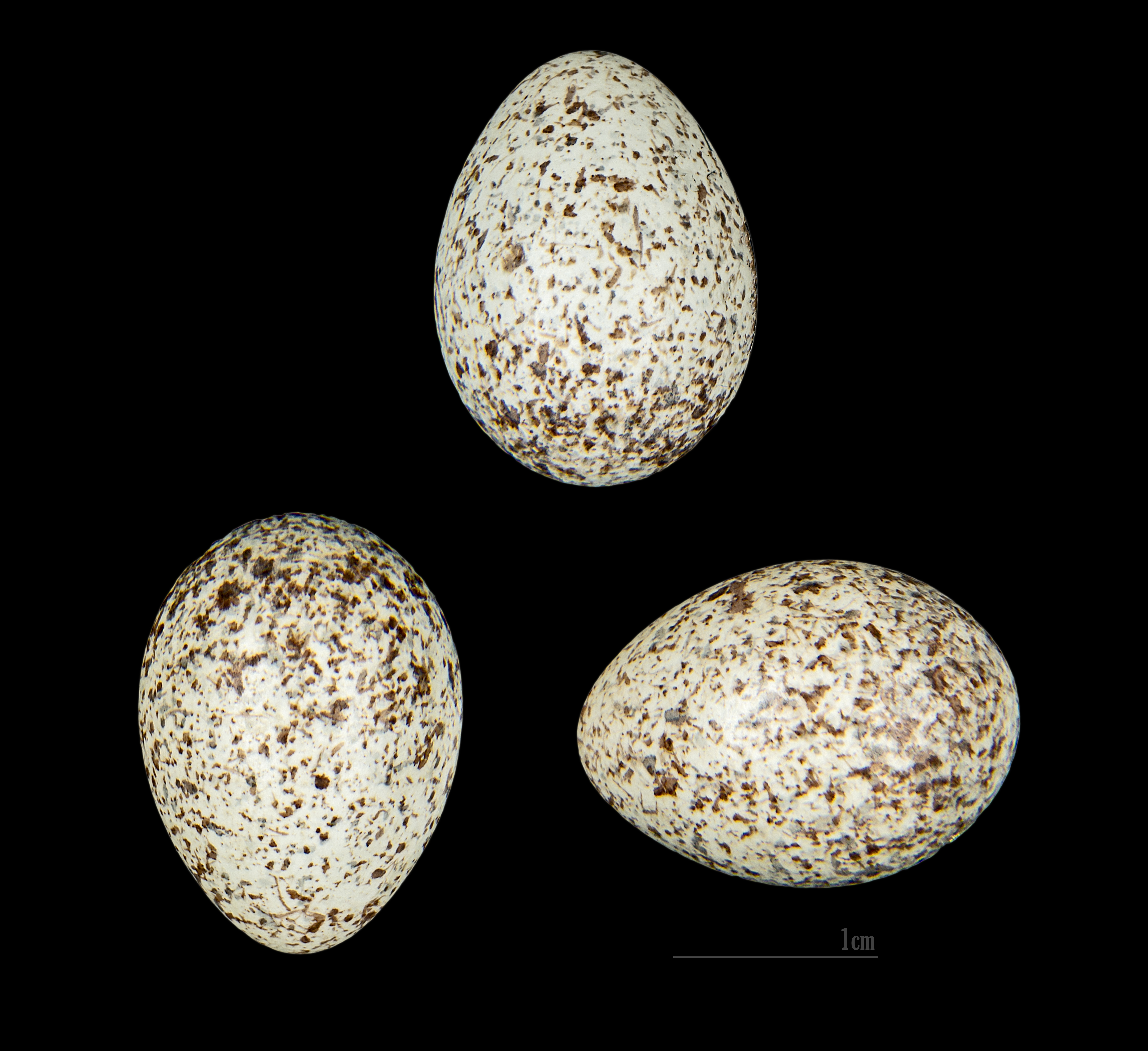 Egg of Tawny Pipit. Collection of Jacques Perrin de Brichambaut.